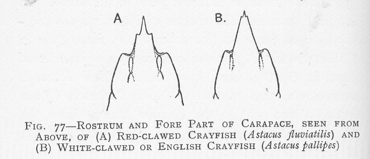 Rostrum and fore part of carapace, seen from above, of (A) Red-clawed crayfish (Astacus fluviatilis) and (B) White-clawed or English crayfish (Astacus pallipes) Subject: Crayfish, Astacus Tag: Invertebrates